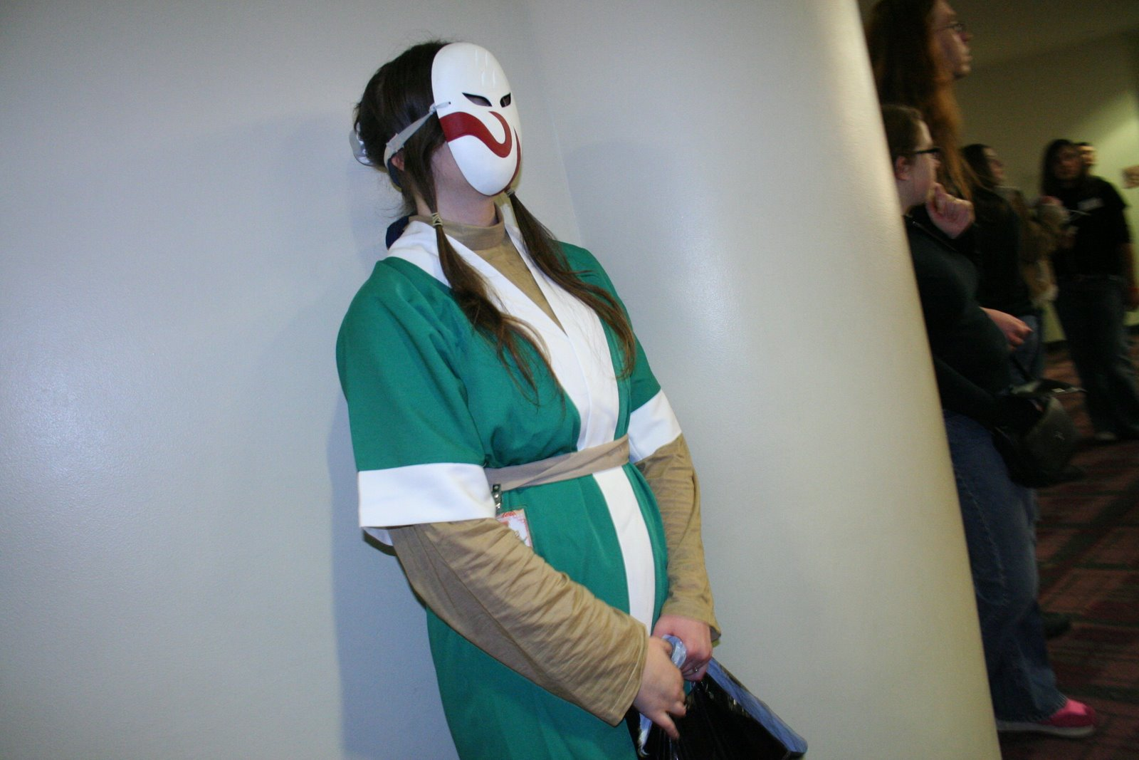 Image of cosplay participant dressed as Haku with his mask on.